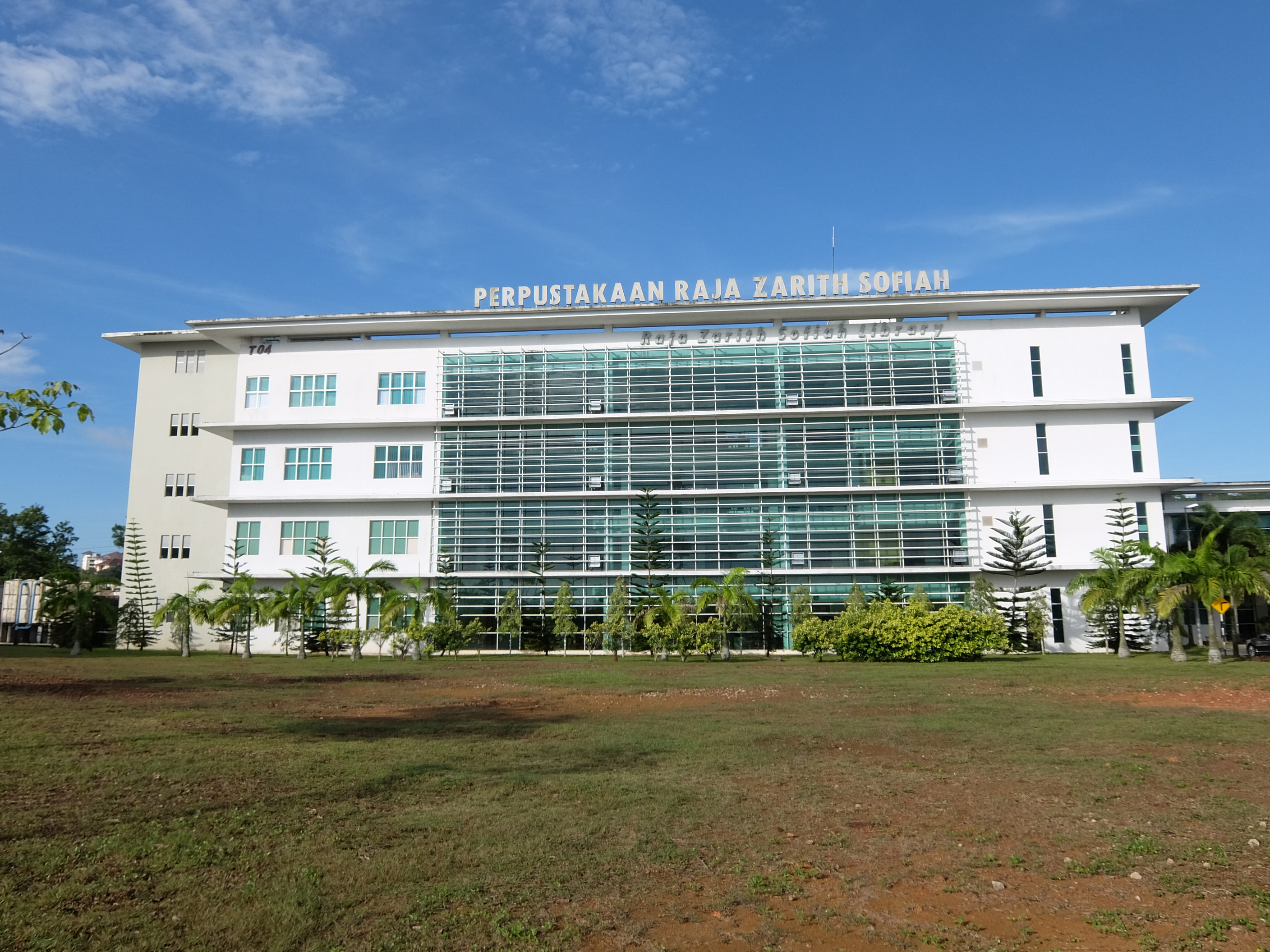 Raja Zarith Sofiah Library, Malaysia University of Technology, Skudai, Iskandar Puteri, Johor Bahru, Johor, Malaysia